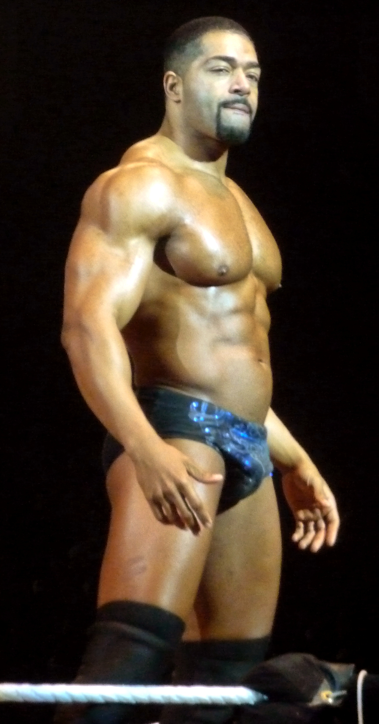 David Otunga at a WWE live event. Taken November 11, 2011 in London, England.